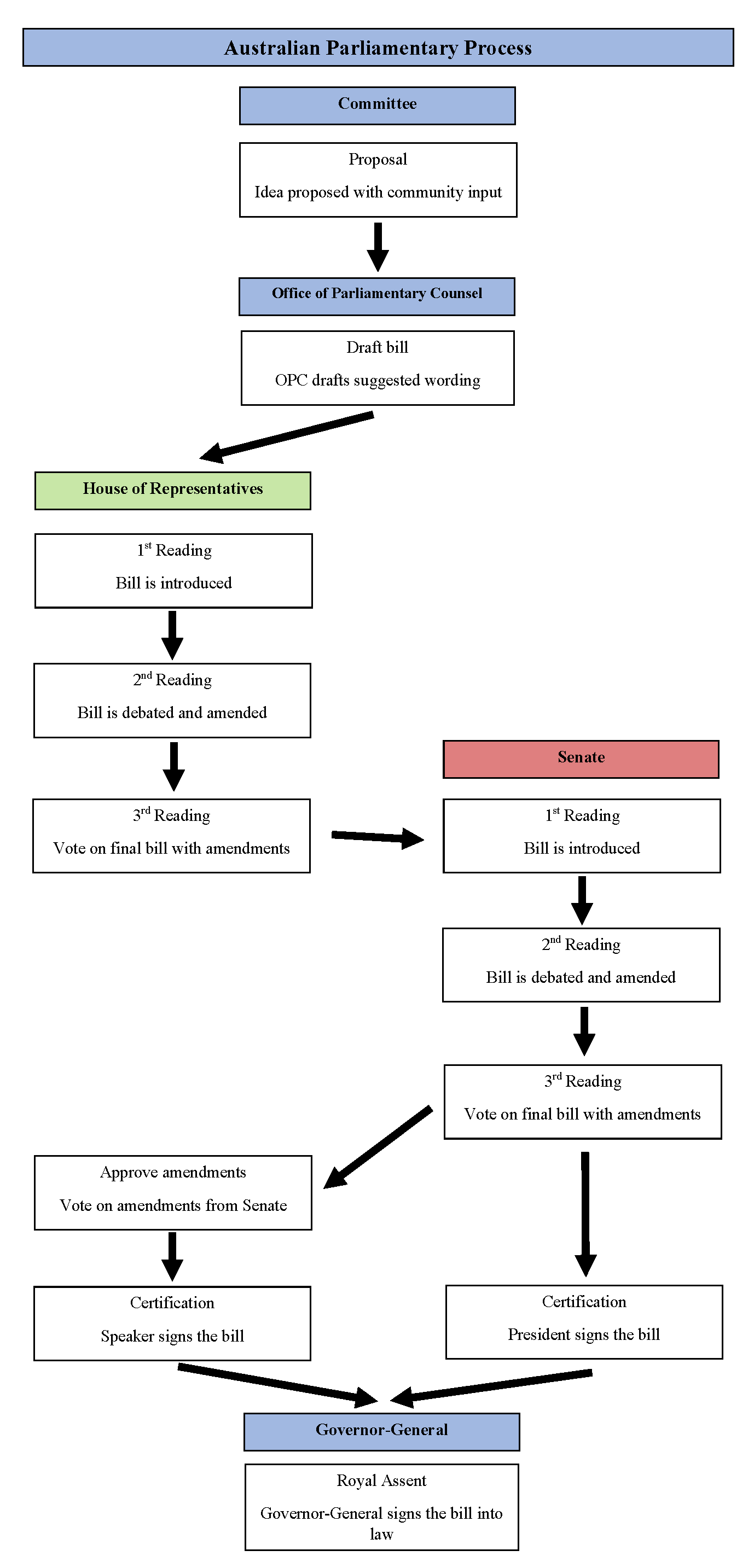 Typical bill process of the Australian Parliament, laid out in a flow chart.